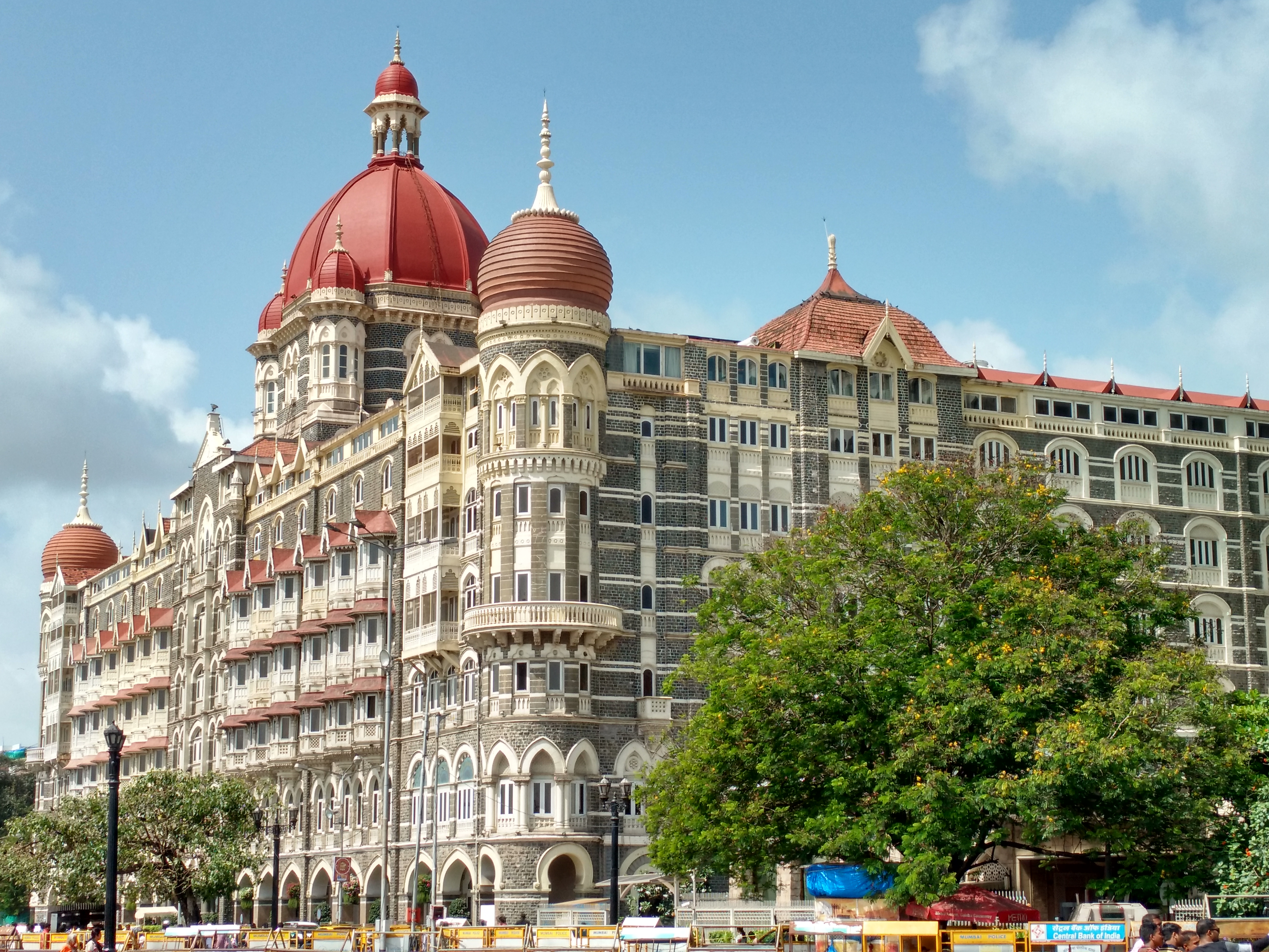 The Taj Mahal Palace Hotel is a five-star hotel located in the Colaba region of Mumbai, Maharashtra, India, next to the Gateway of India. Part of the Taj Hotels Resorts and Palaces, this hotel is considered the flagship property of the group and contains 560 rooms and 44 suites. There are some 1,500 staff including 35 butlers. From a historical and architectural point of view, the two buildings that make up the hotel, the Taj Mahal Palace, and the Tower are two distinct buildings, built at different times and in different architectural designs.